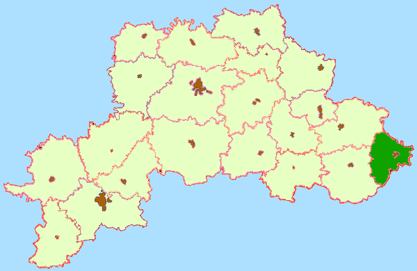 Mogilev Region map by Al Silonov